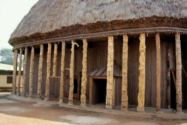 la description du village